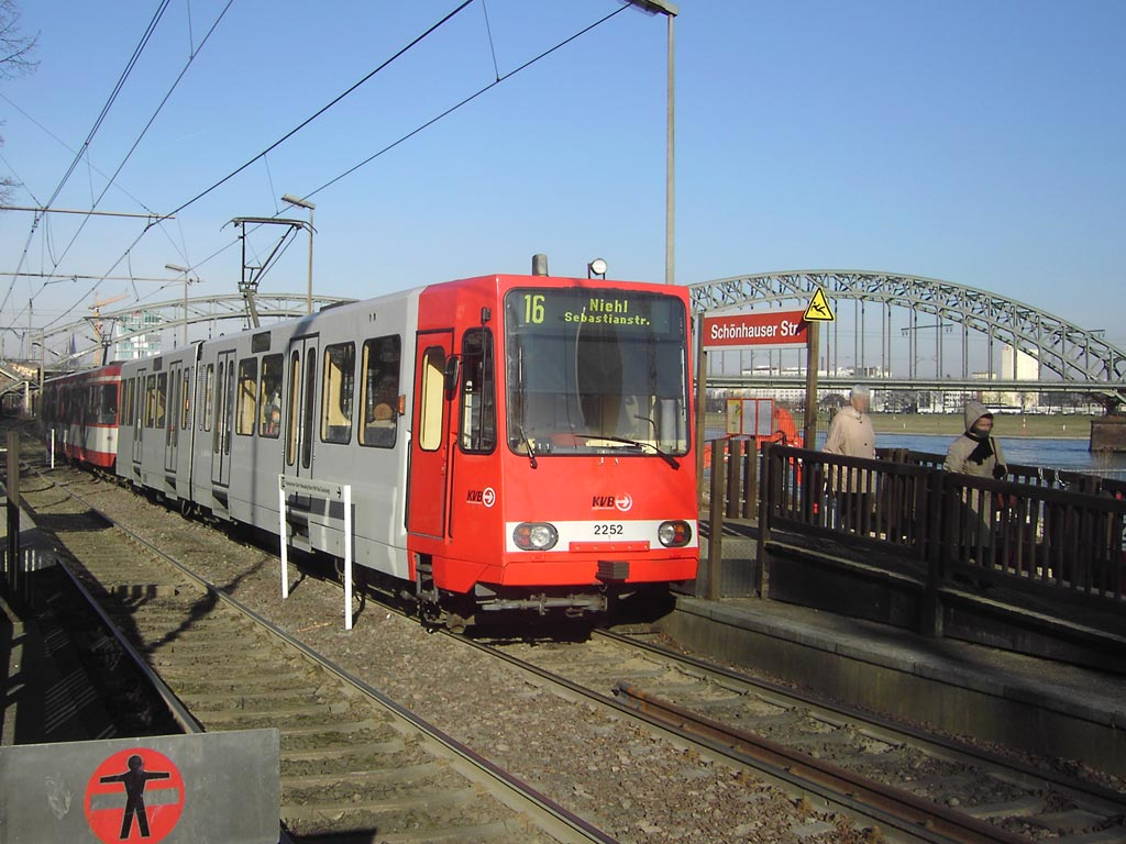 Cologne type B LRV stopping at Schönhauser Str. station.